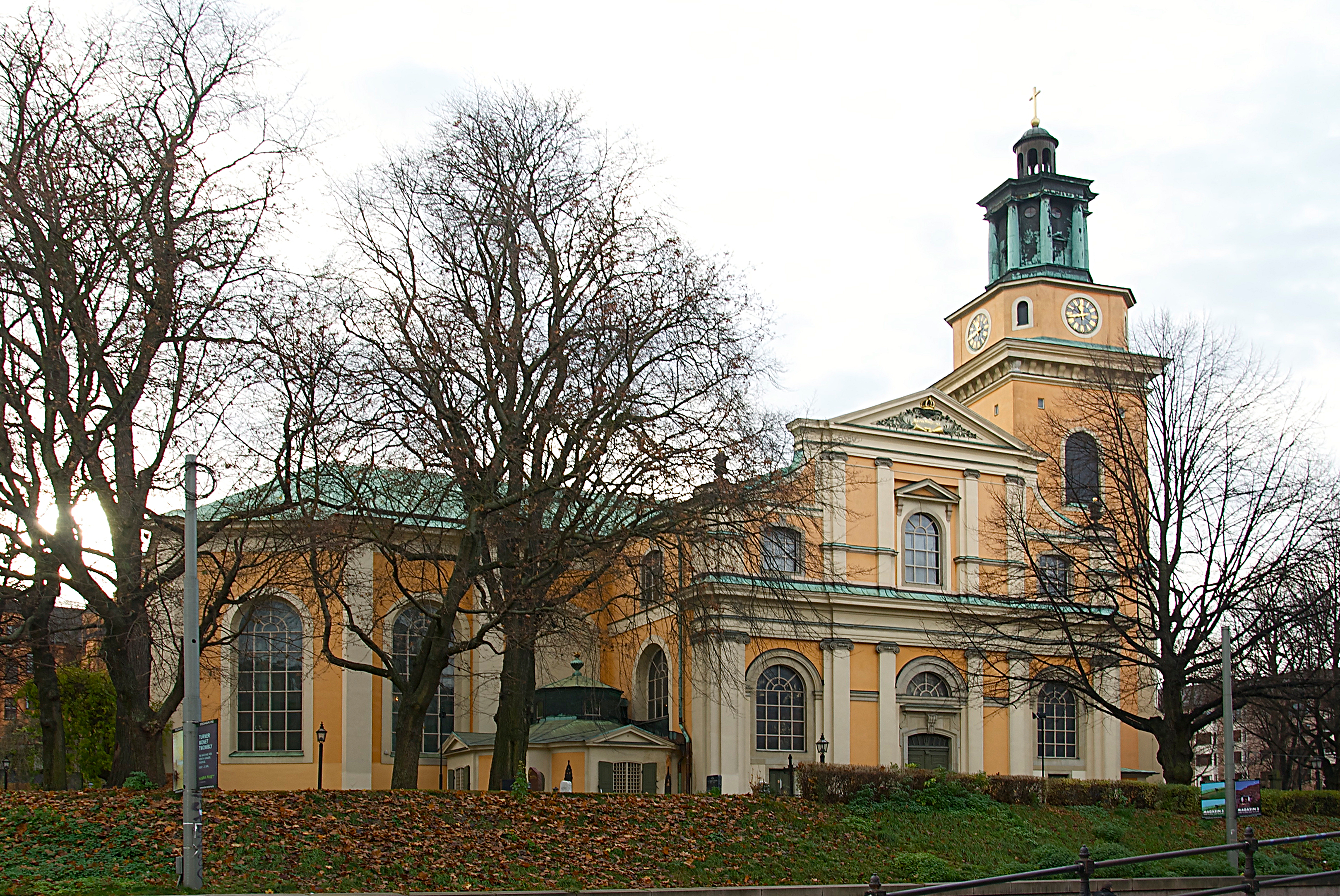 Maria Magdalena kyrka November 2011